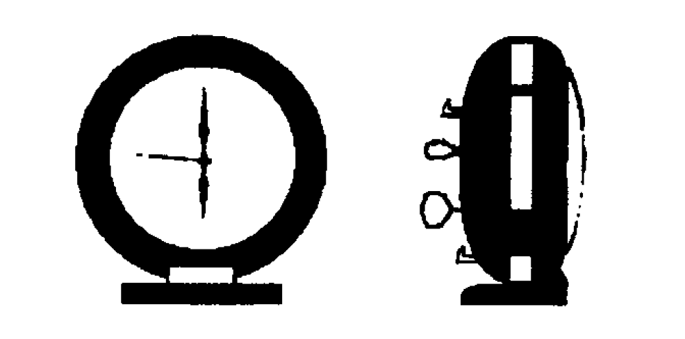 Clock rotated depth wise 90 degrees